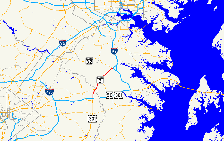 Map of Maryland Route 3